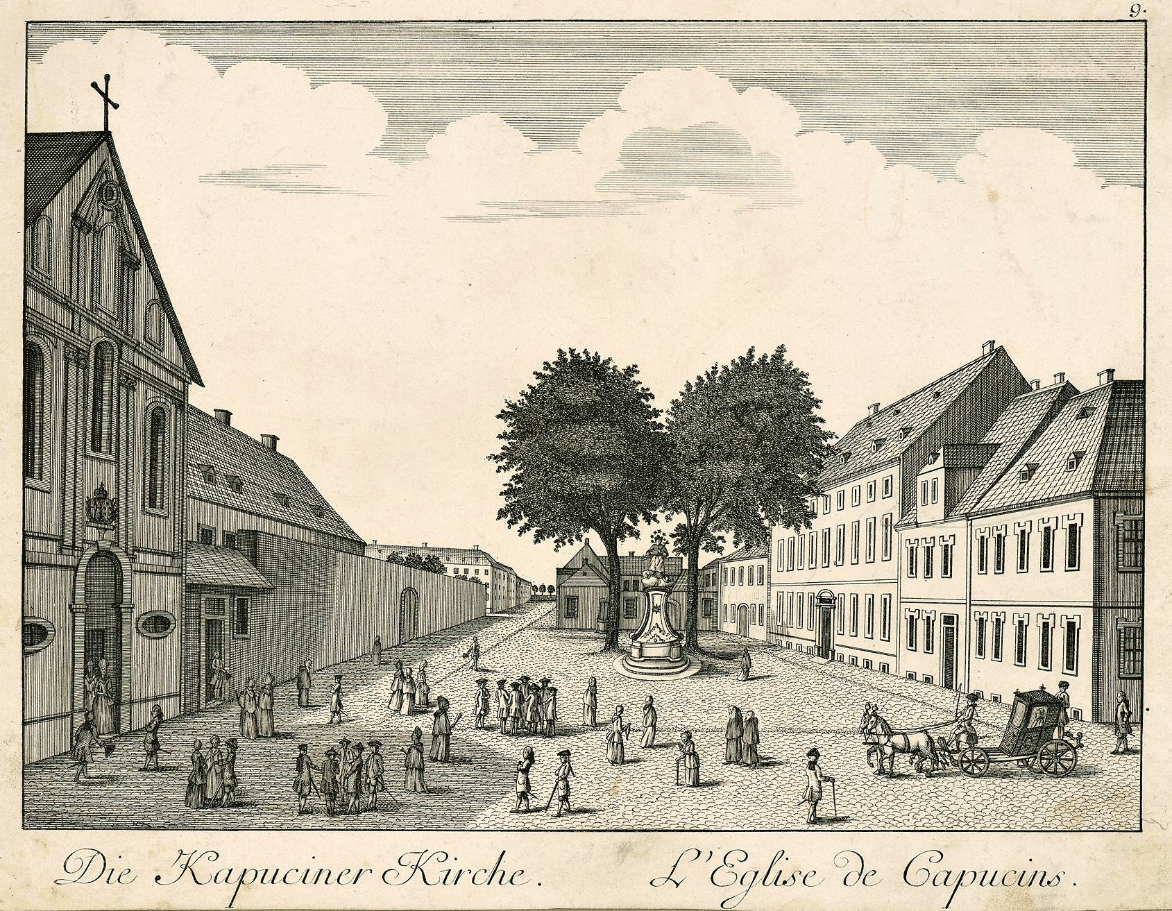 Kapuzinerkirche Mannheim